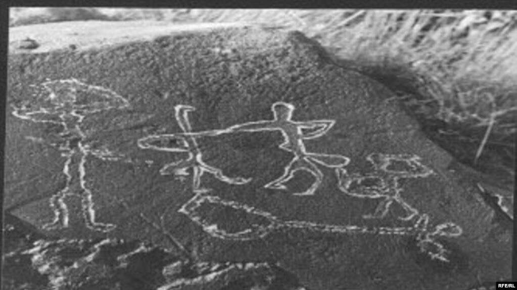 Approximately 6000 years old rock drawing of dancers and hills found in 1986 - Kazakhstan, Almaty region, Maitube summer accommodation